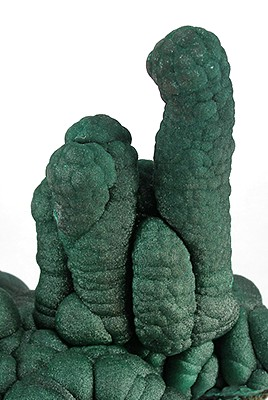 Malachite Locality: L'Etoile du Congo Mine (Star of the Congo Mine; Kalukuluku Mine), Lubumbashi (Elizabethville), Southern area, Katanga Copper Crescent, Katanga (Shaba), Democratic Republic of Congo (Zaïre) (Locality at ) Size: large cabinet, 16.4 x 13.6 x 13.2 cm Malachite stalactites A fine, 3-dimensional specimen with a family of stalactites perched upon a gently rolling knoll of malachite matrix. The piece is exquisite in its overall form, very 3-D, and sits nicely on its own. The piece is complete 360-degrees around. It is much prettier in person, with a good "shimmer" to the surface.